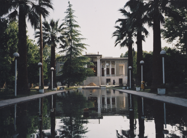 Afif abad garden is yet another example of late Qajarid era architecture in Shiraz, and a fine example of Persian gardens